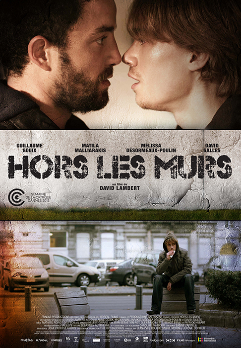 Poster of the movie Beyond the Walls (Q3140771)